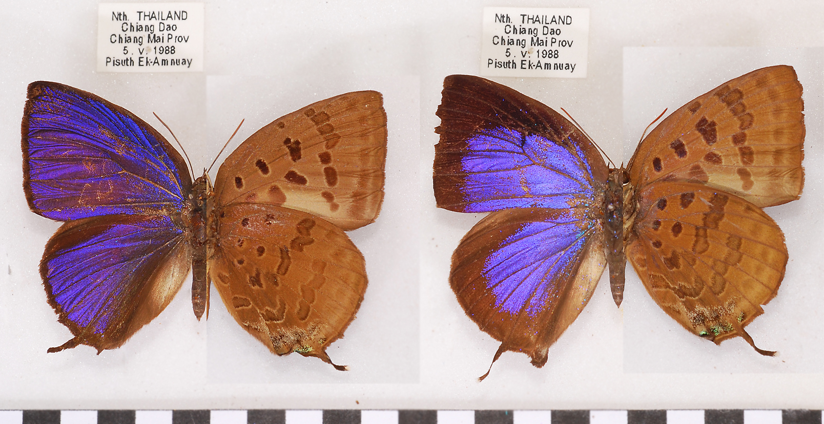 Arhopala silhetensis silhetensis, male, female, set specimens, Thailand, Alan Cassidy photo.